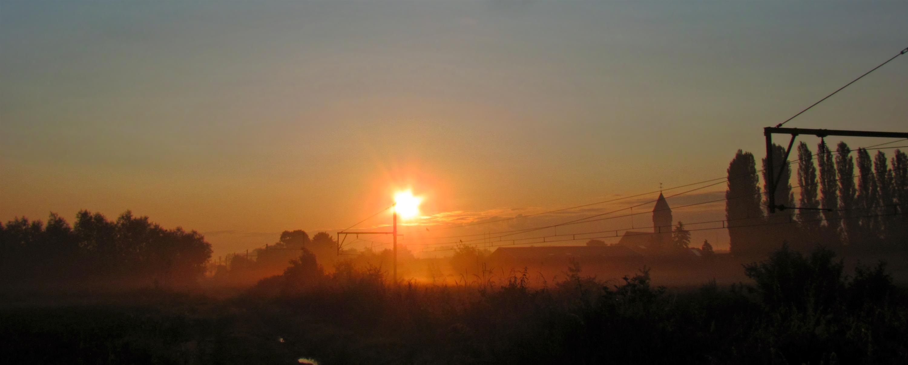 Panorama of the village of Sint-Joris (Alken). Photo taken on the summer solstice sunrisein june 2012. Originally made by Niele Geypens for use on Not for use by political parties, campaigns, organisations or associated movements other than the Belgian political party 'Groen'.